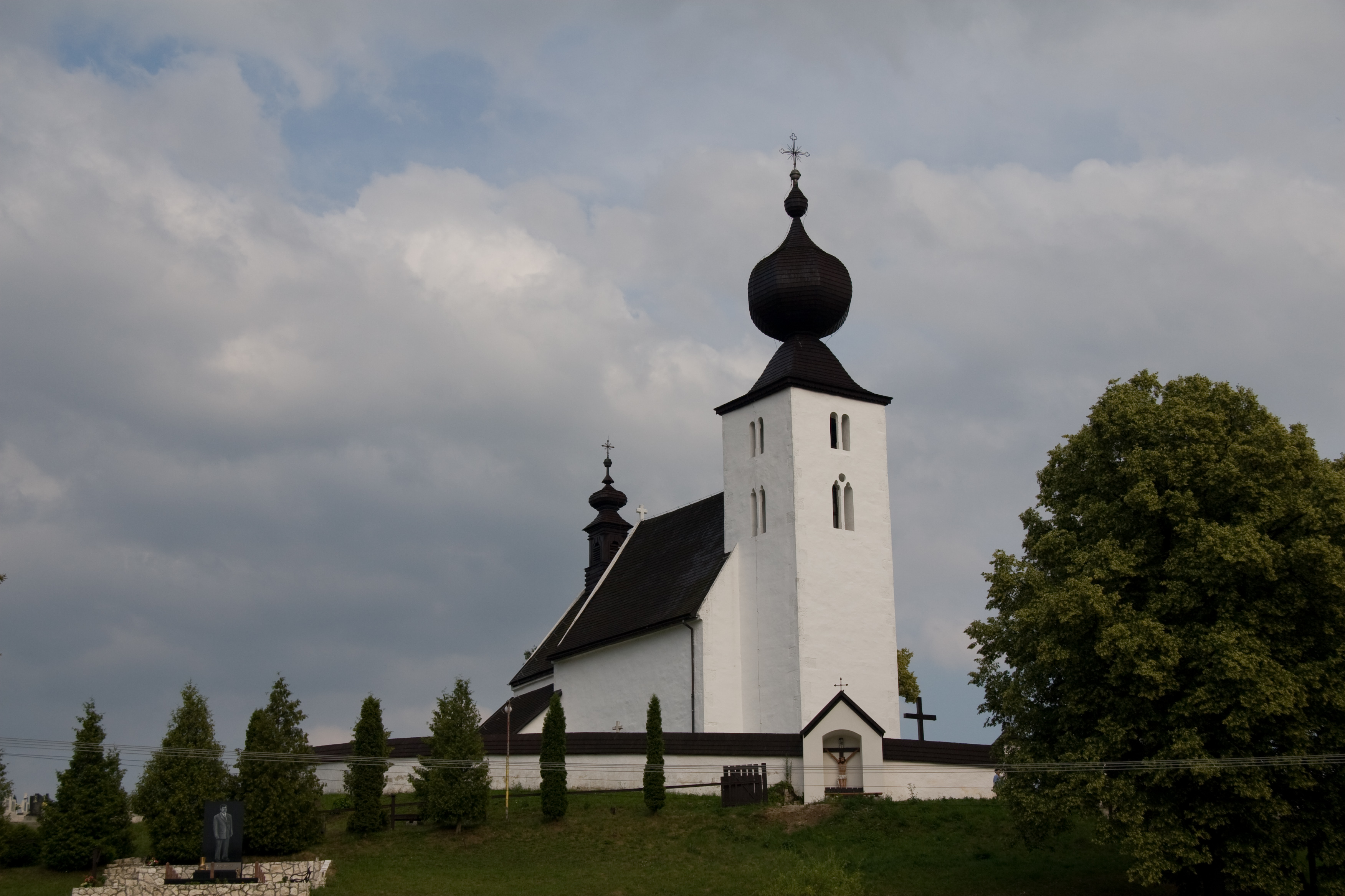 The Church of Holy Spirit in Žehra, Slovakia